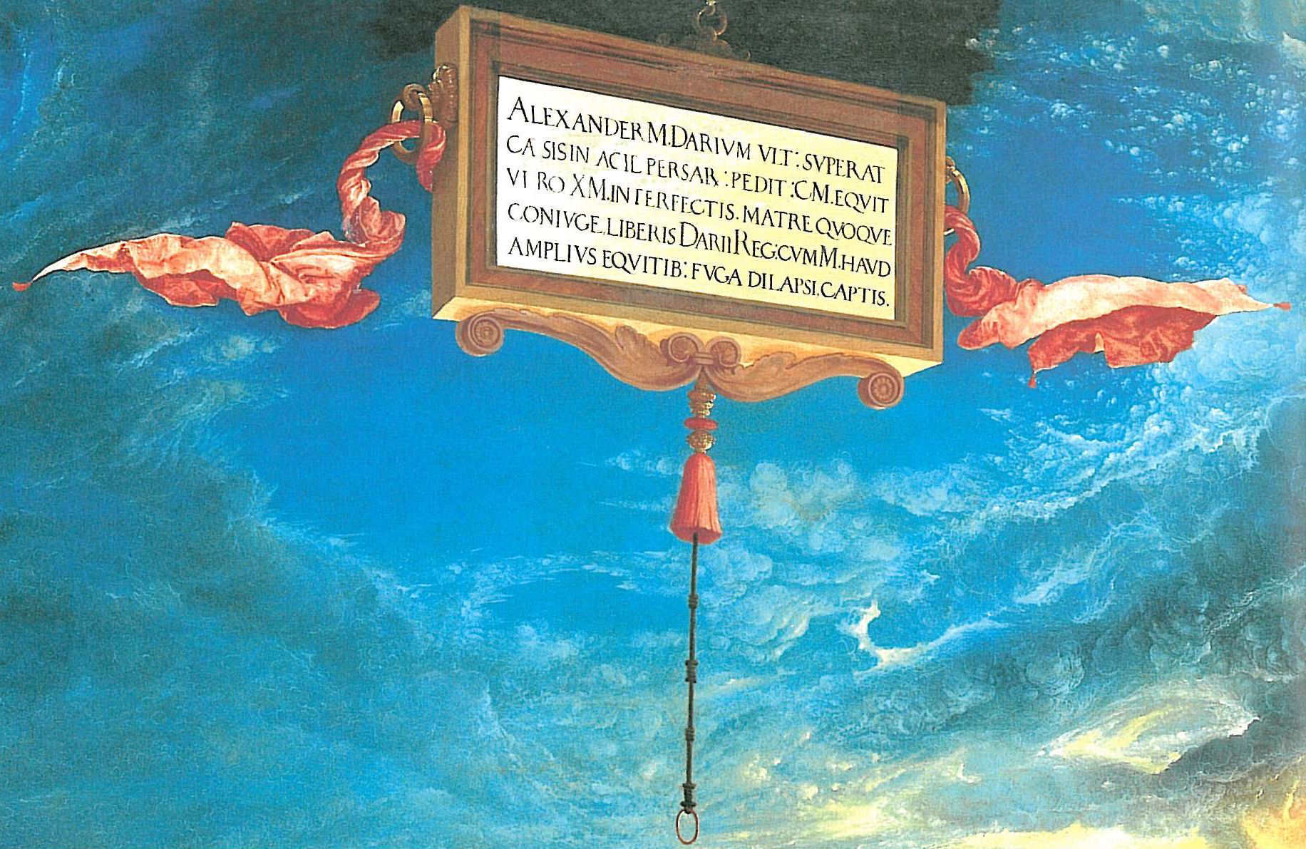 Battle of Alexander the Great against Persian King Darius